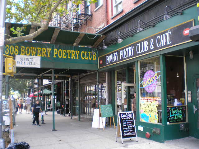 The author of this image is me, David Shankbone. Taken 6 August 2006. The Bowery Poetry Club on The Bowery, New York City.